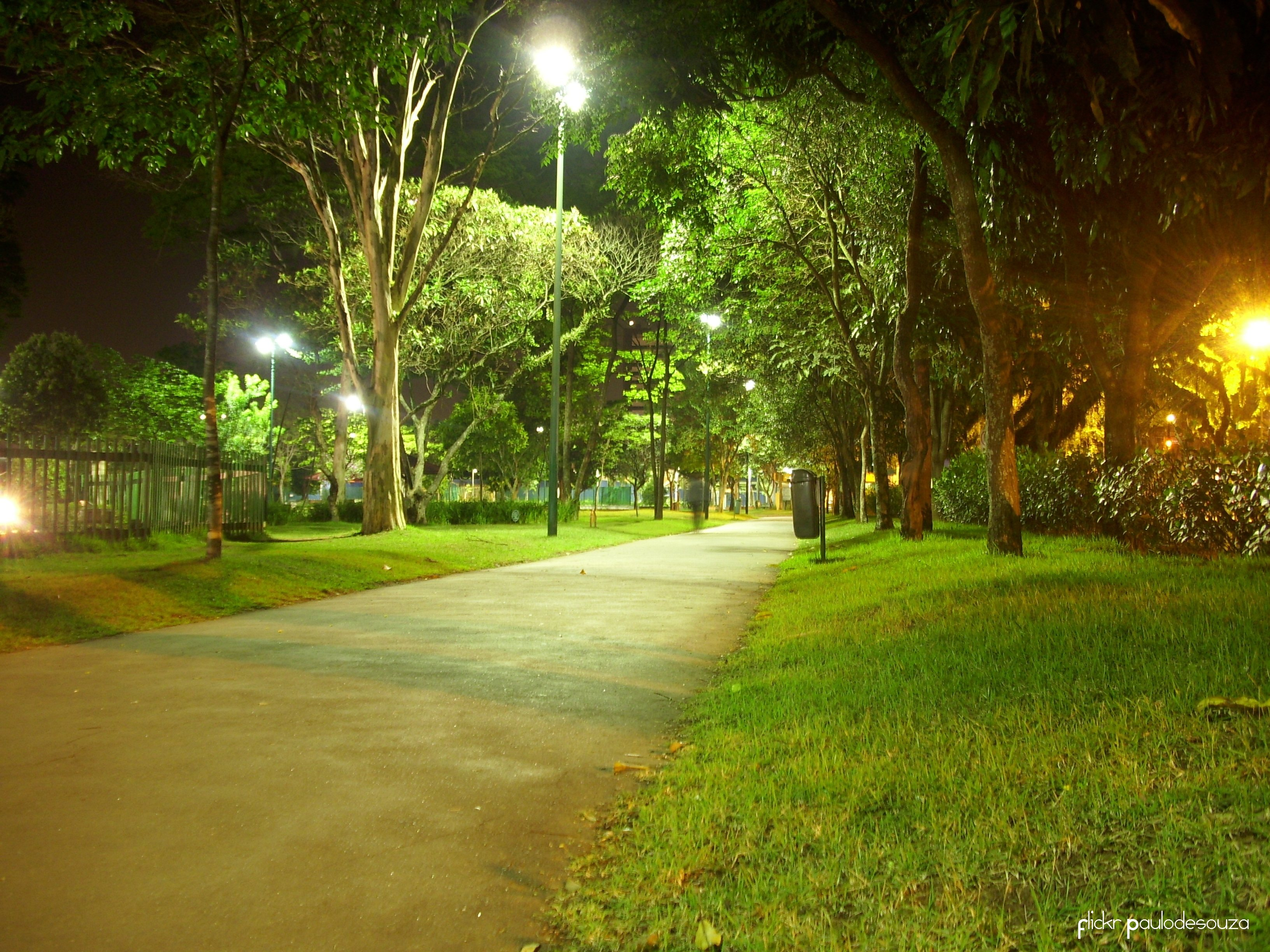 Nocturn view of the Santos Dumont Park, in São José dos Campos, São Paulo, Brazil.